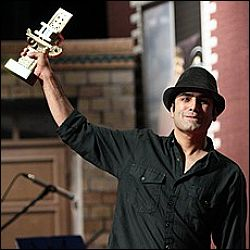 paliz khoshdel in City” International Film Festival, 2011